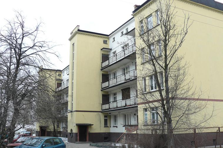 Poznan, Komandoria District.